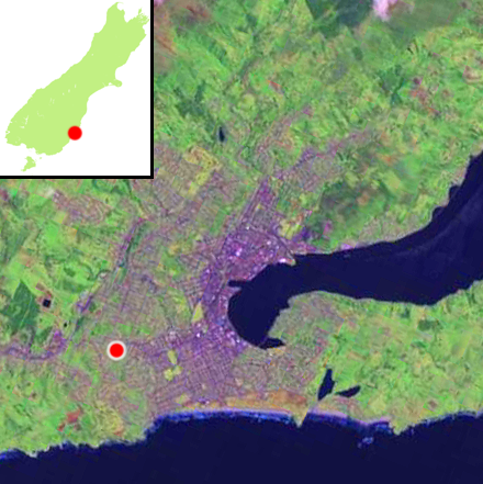 Map showing location of Calton Hill, Dunedin, New Zealand. Based on NASA satellite map